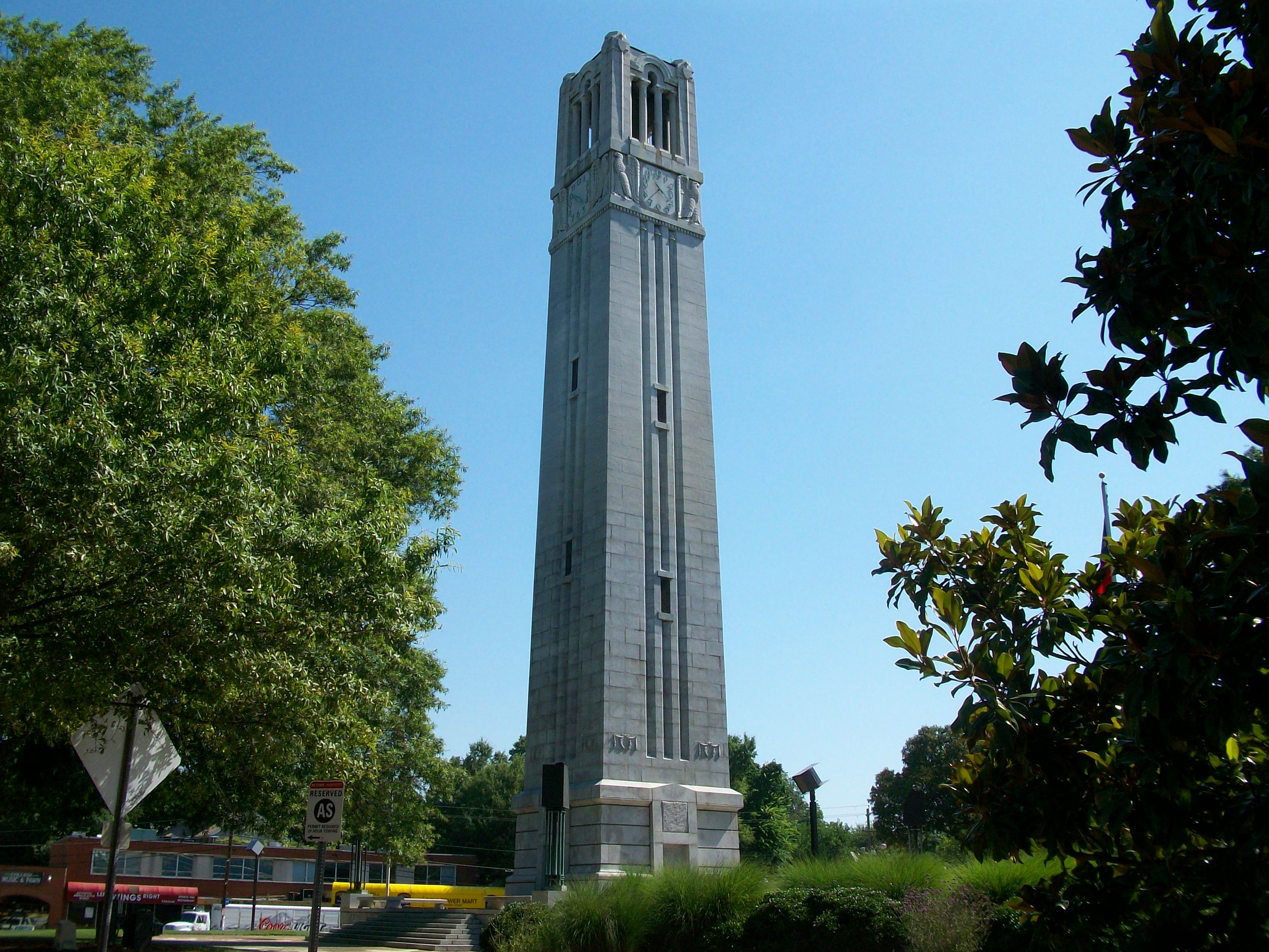 NCSU Bell Tower